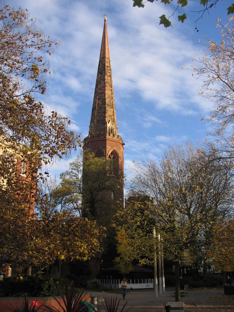 14th-century tower and spire of the former Christchurch parish church, New Union Street, Coventry. This is all that survives of the parish church, which was the conventual church of Greyfriars, a Franciscan friary.